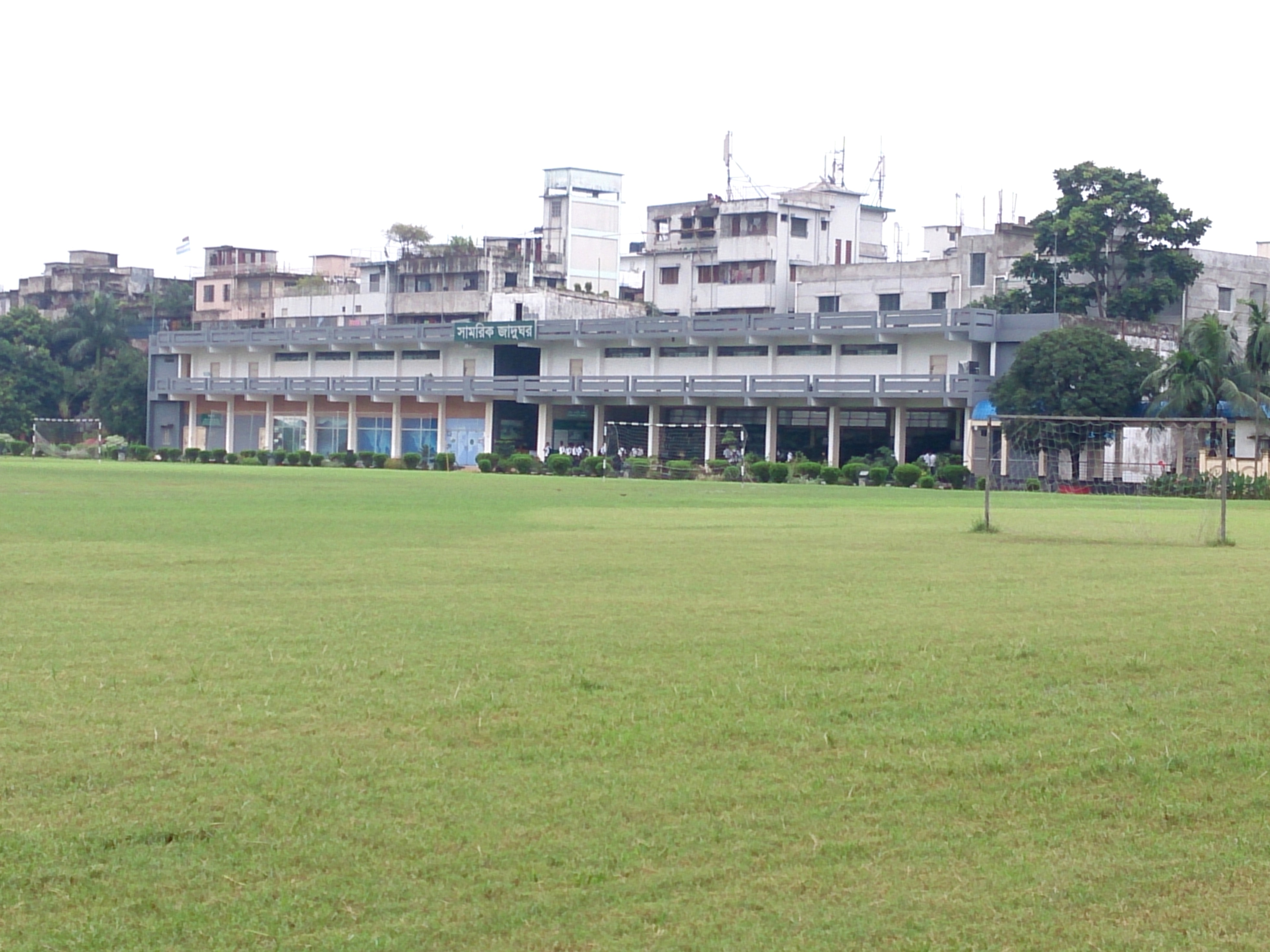 Bangladesh Military Museum